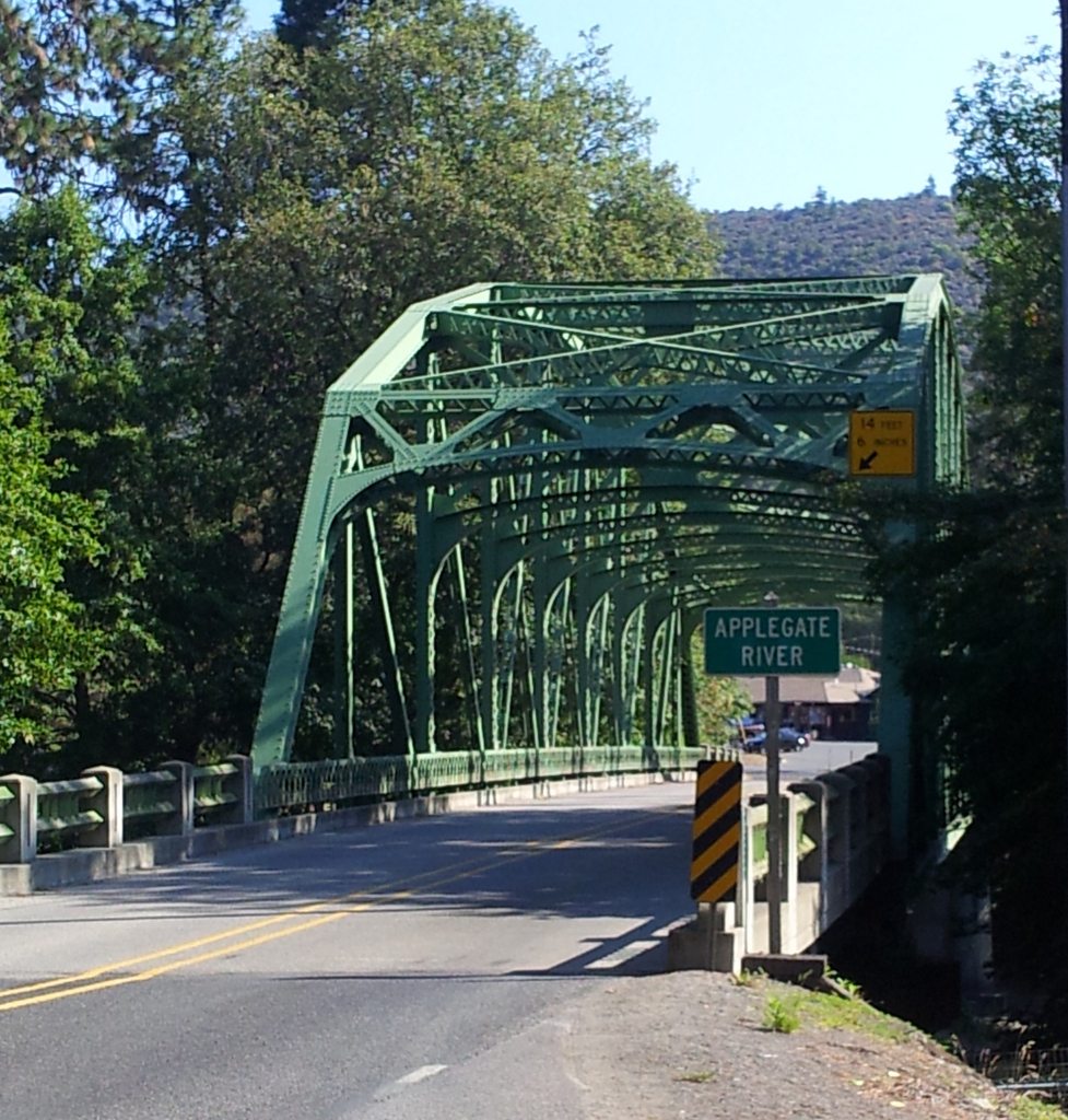 This photo was taken on September 1, 2012 of the Applegate Bridge on west bound Oregon Highway 238. I used a Samsung Galaxy SII Smartphone for the photo and Picasa 3 to crop it for this upload.